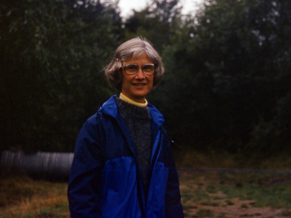 Toni Packer is the founder of Springwater Center for Meditative Inquiry and Retreats in the U.S.